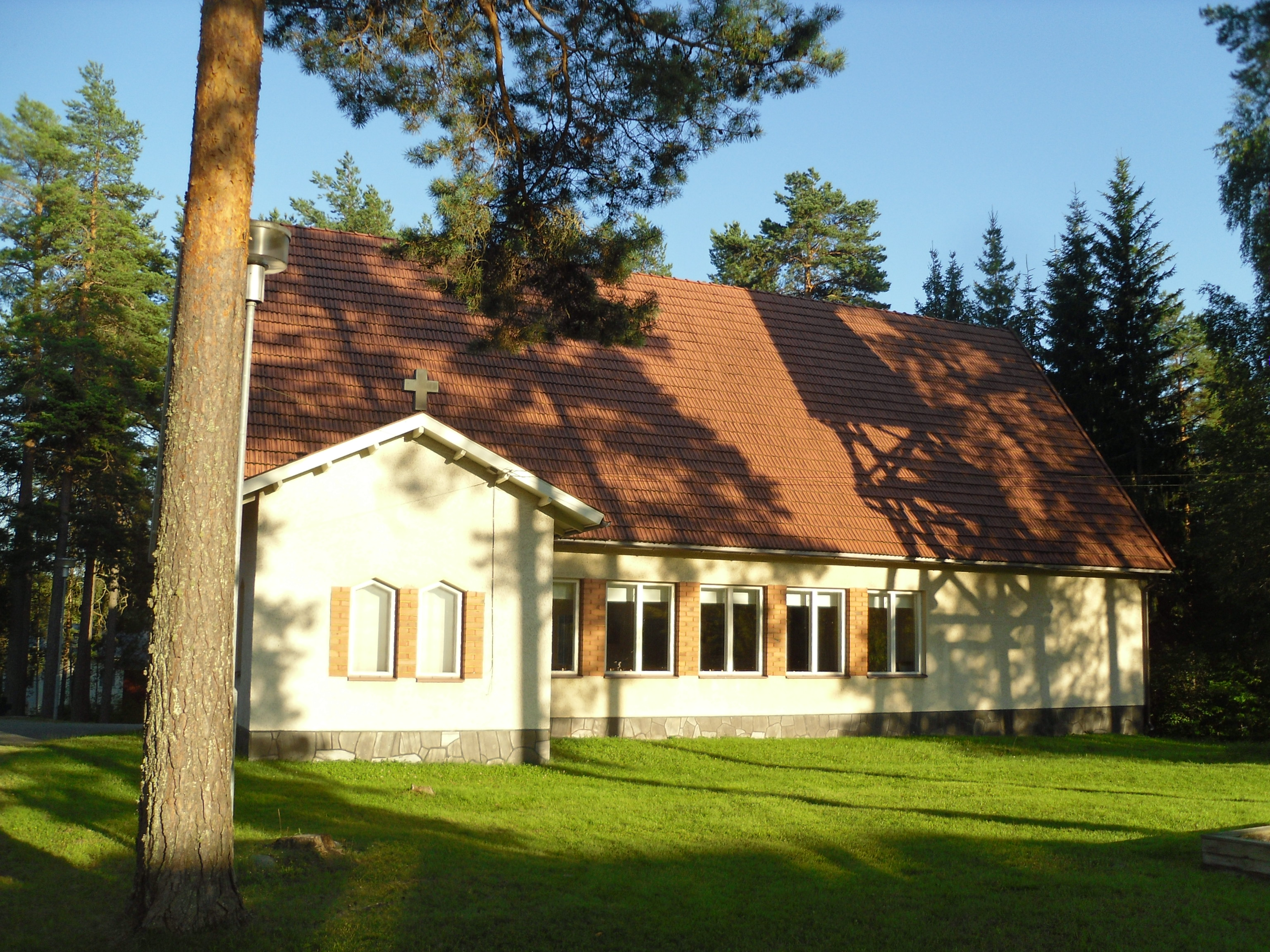 Kolho Church in Mänttä-Vilppula, Finland